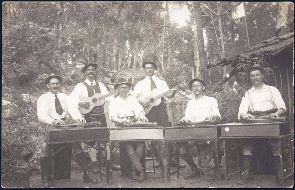 Title devised by cataloguer based on acquisition documentation.; Inscriptions: "In kind remembrance from [?] Berrima, 13/III.18"--In pencil on verso.; Condition: Discolouration.; Also available in an electronic version via the Internet at: .au/nla.pic-vn4608005; Donated by Christopher Evans, 2009. Persistent URL .au/nla.pic-vn4608005